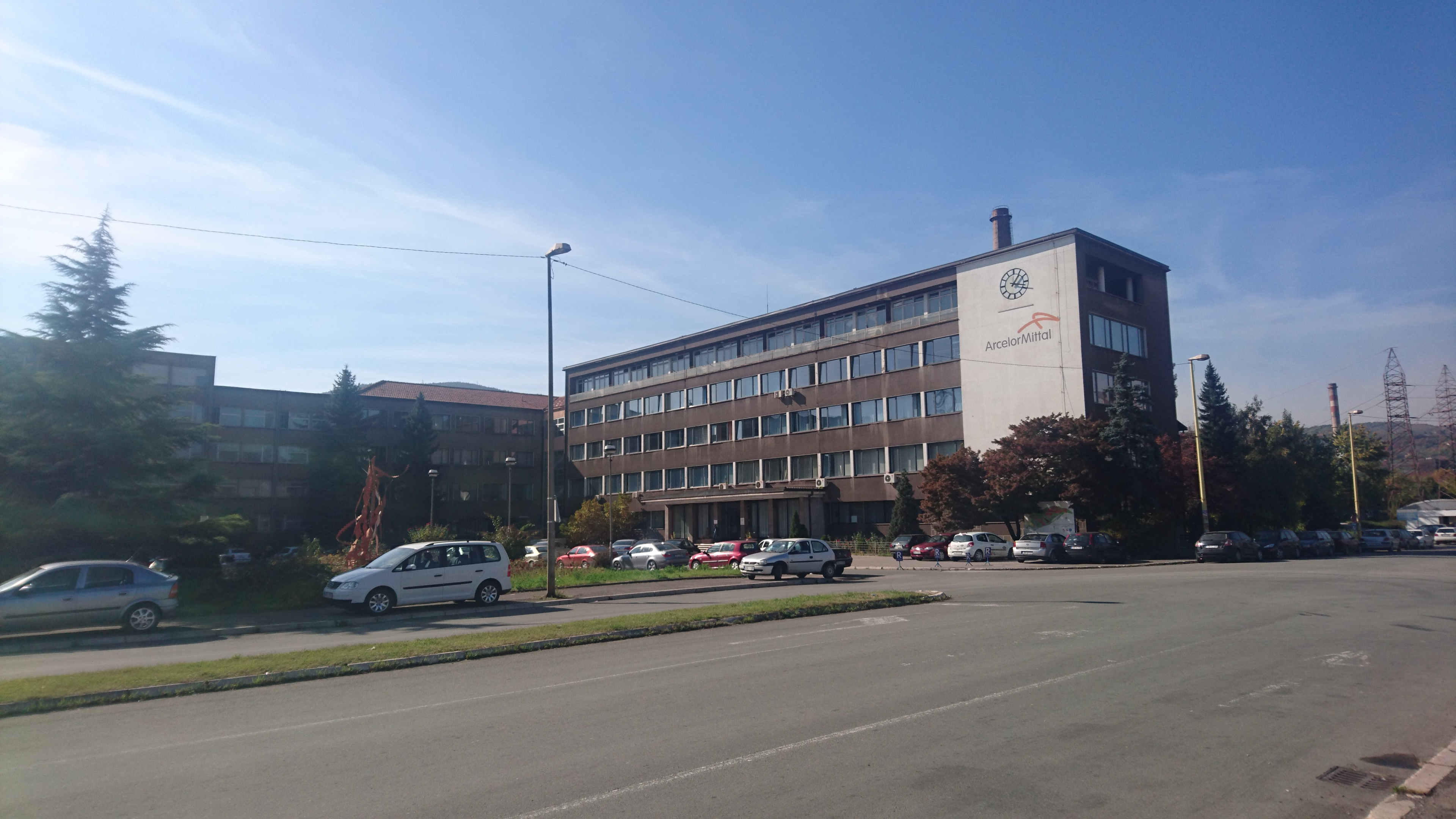 The office building of the Zenica steelfactory, used by ArcelorMittal.